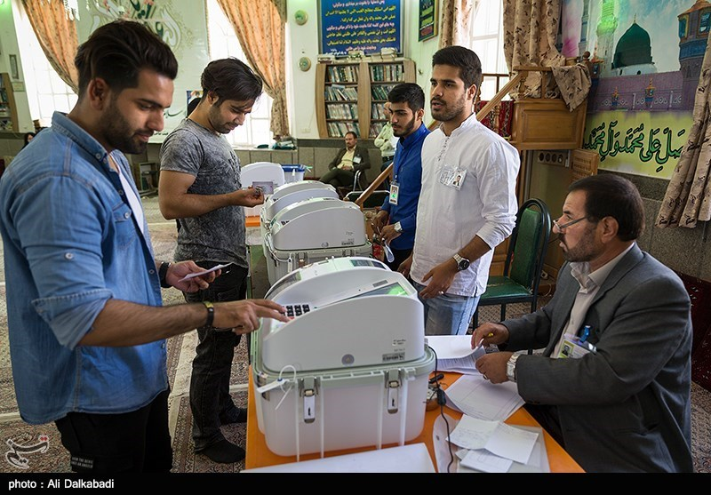 Sabzevar City Council Election